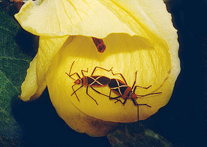 A pair of Cotton Stainer Bugs in a hibiscus flower in Singapore. These spend a lot of time in mating position. In context at